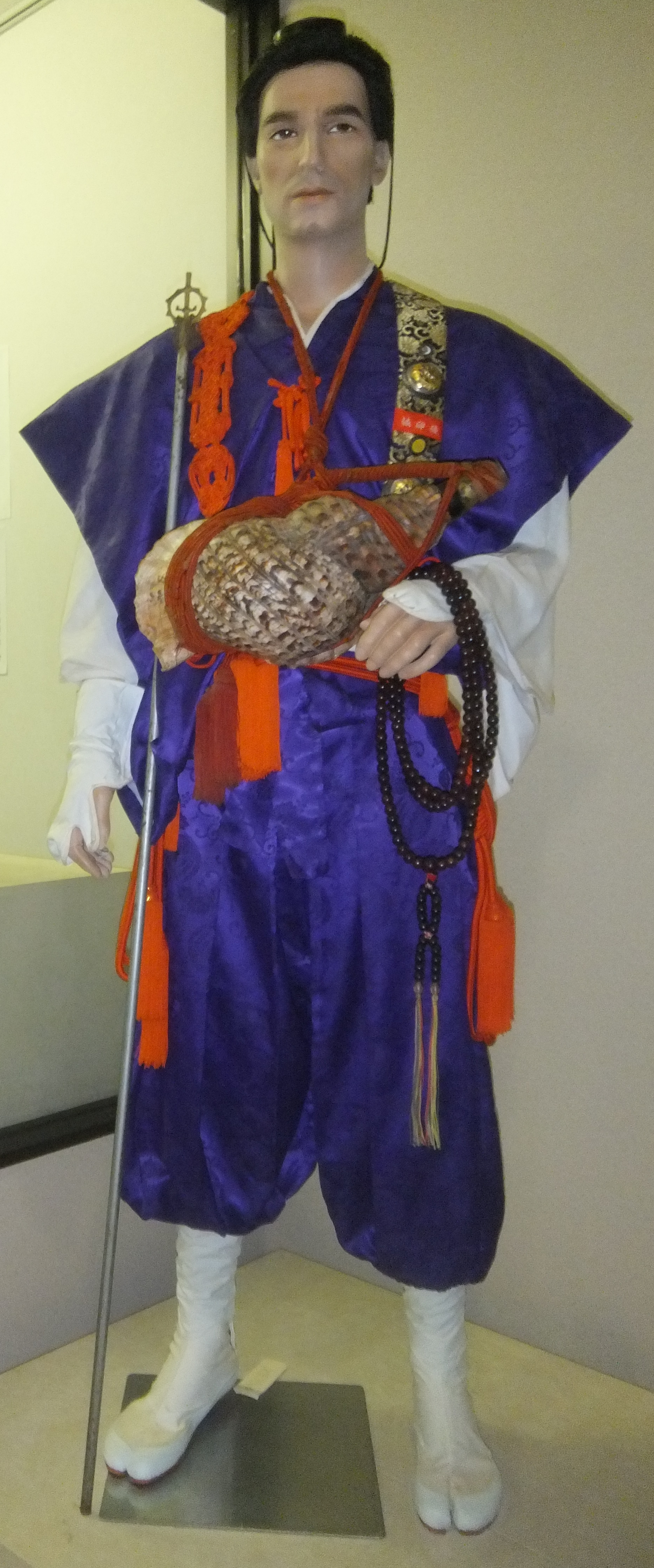 Shugenja (Yamabushi mountain ascetic hermit) in the Shugendō-Museum of the Shippōryū-Temple (Shugendōkaikan-Shiryōkan, Shippōryū-ji, Inunaki-san, Prefecture Osaka)